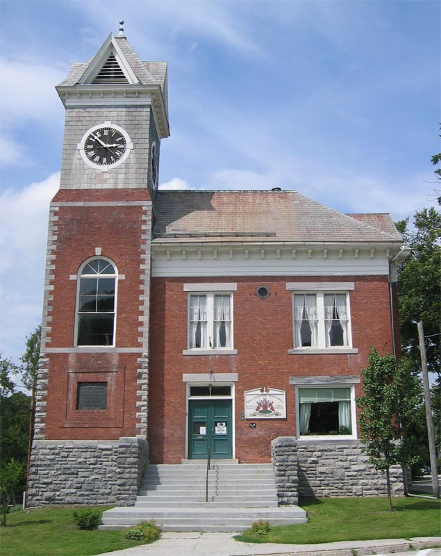 Town Hall, Wallingford, Vermont.